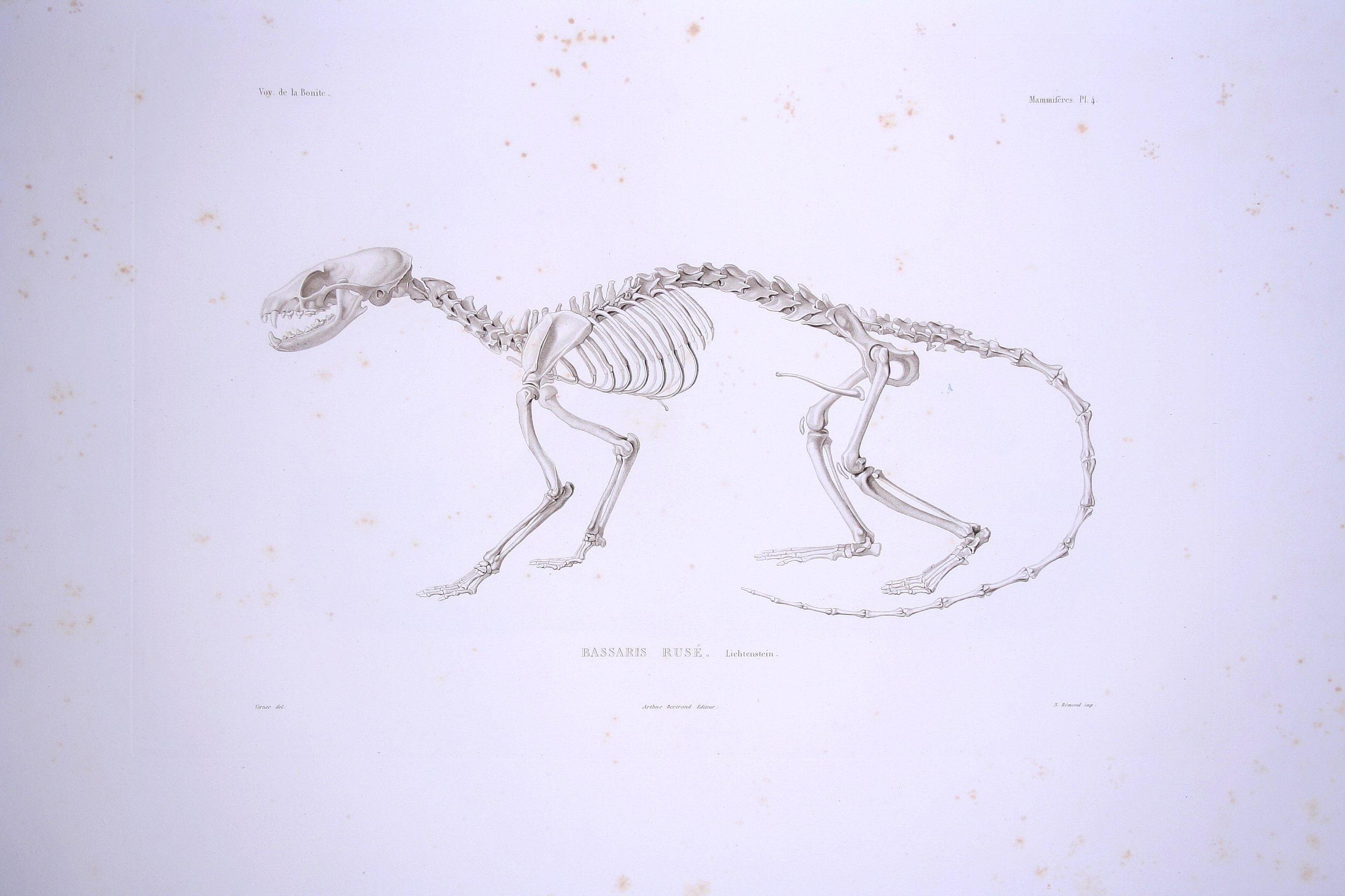 Zoology (mammals)